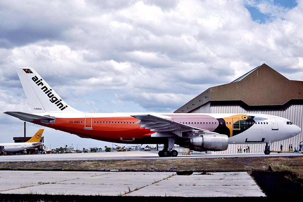 Air Niugini Airbus A300B4-203 at Melbourne Airport